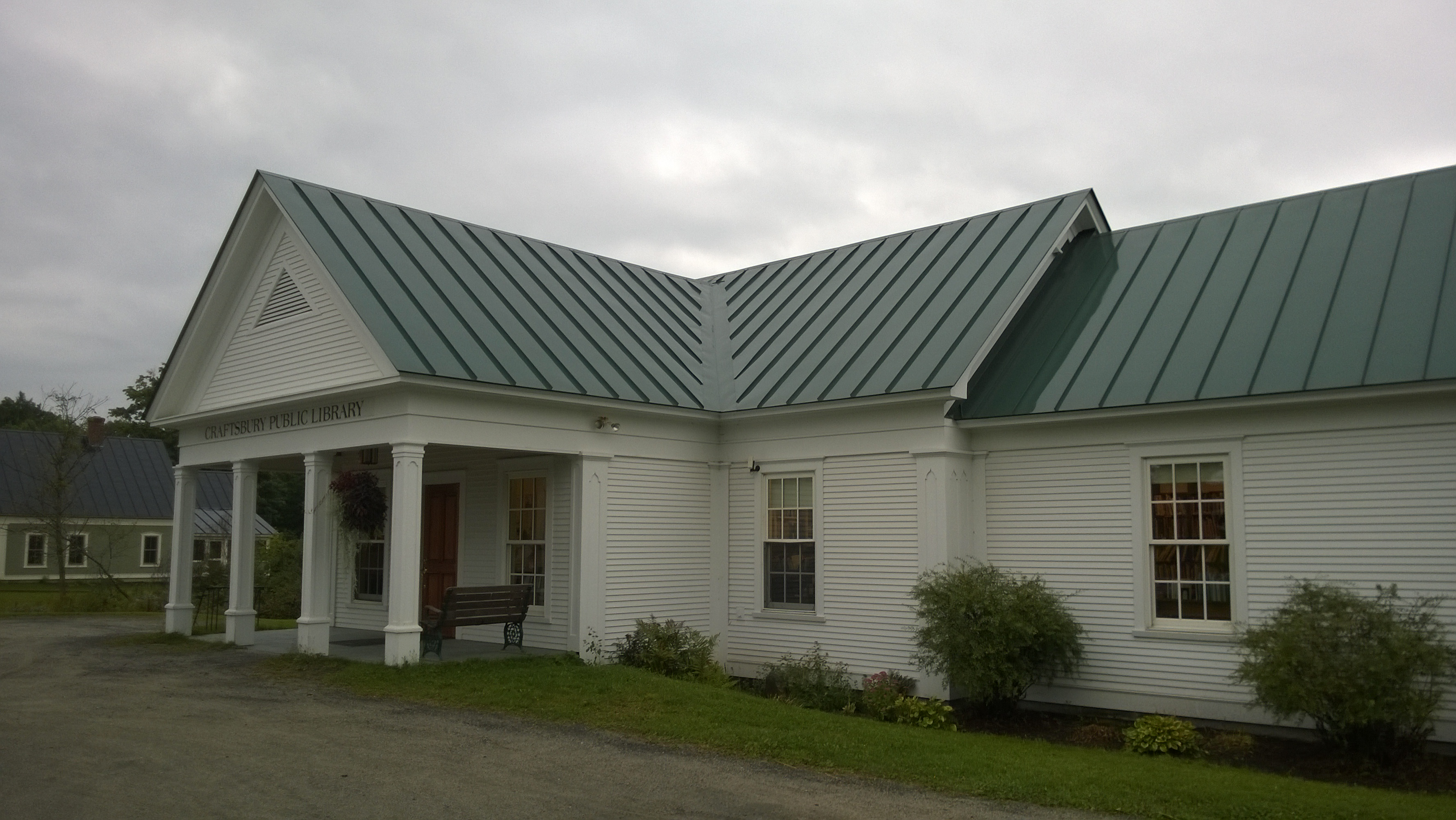 Buildings near Craftsbury Common